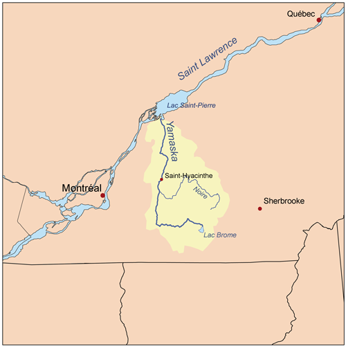 Map of the Yamaska River watershed.